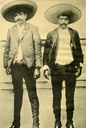 Euphemio and Emiliano Zapata, from early 1910s source.